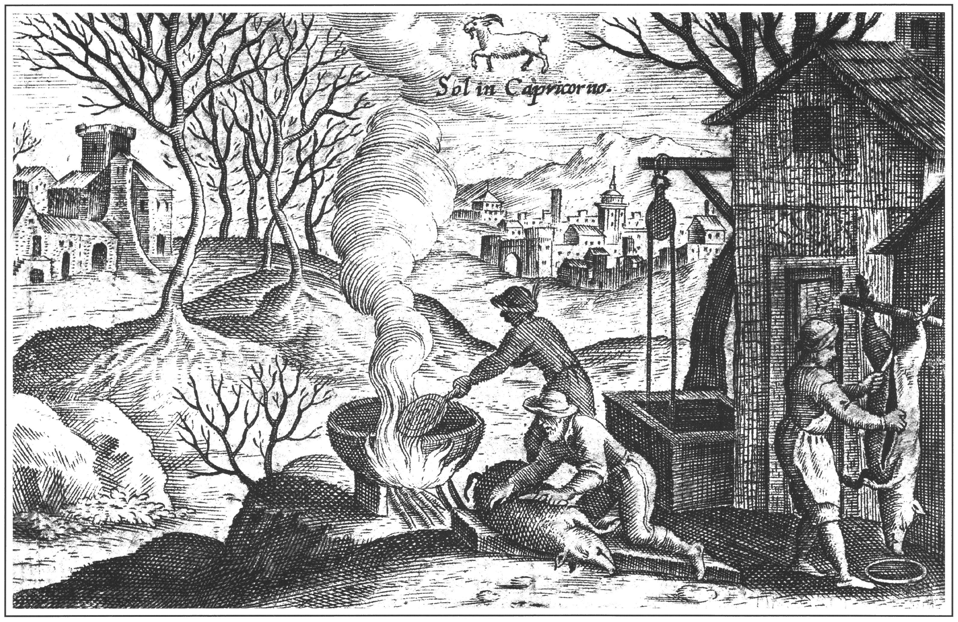 December, Aleksander Tarasowicz